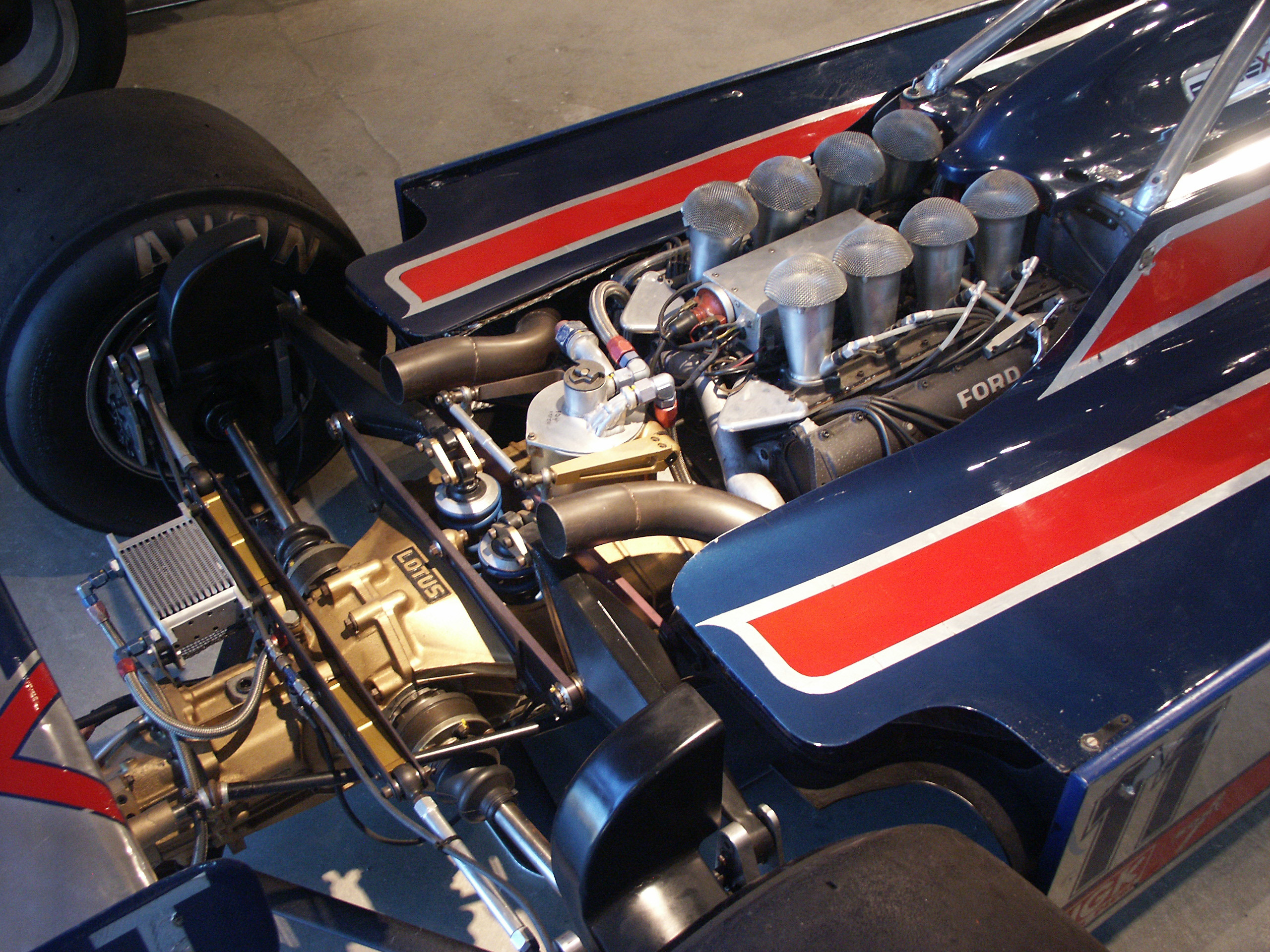 Cosworth DFV engine in a Lotus 81 Formula 1 car, at the Barber Vintage Motorsports Museum in Leeds, Alabama, USA.